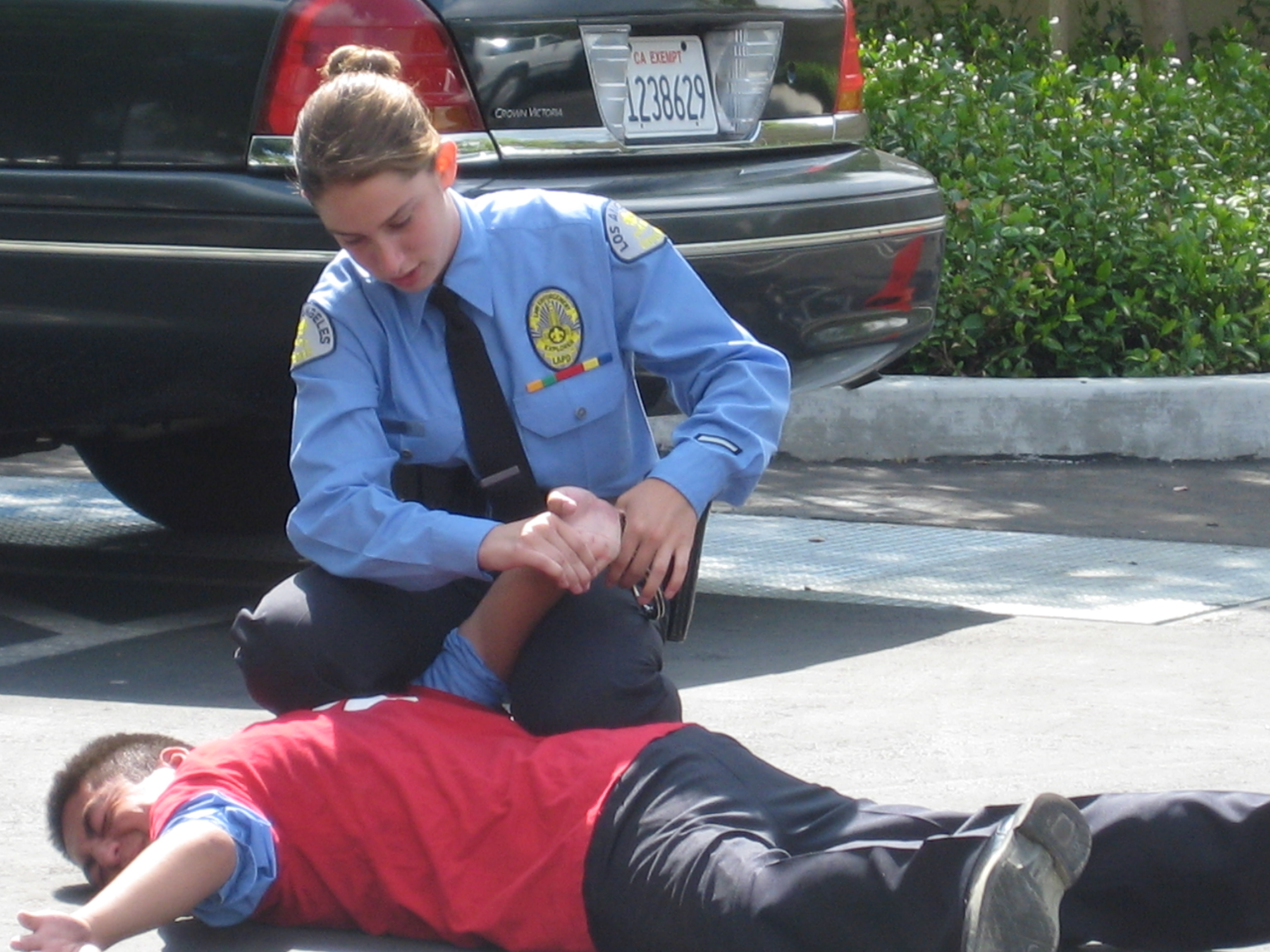 LAPD Explorer conducting a handcuffing drill during a traffic stop drill at the West Valley Station.